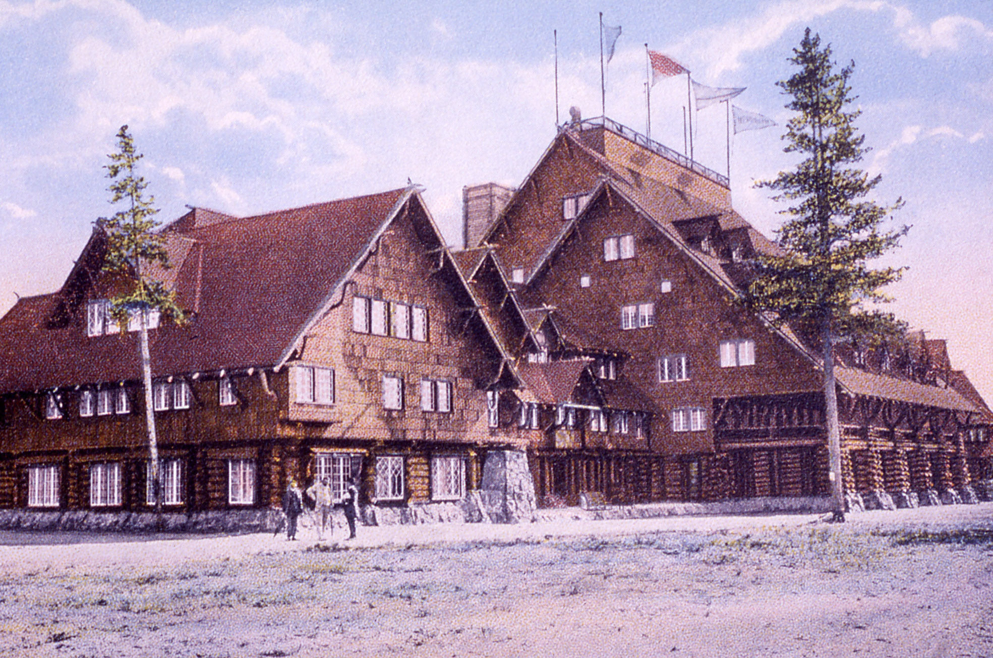 Old Faithful Inn, northeast aspect; (F. Jay) Haynes; 1914; catalog#DSF16715; original#YELL192743